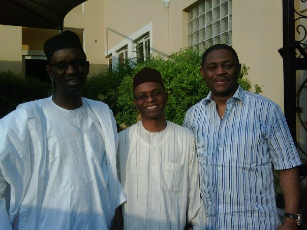 Christmas lunch at the Abuja home of Chief Femi Fani-Kayode with Nuhu Ribadu and Mallam Nasir El-Rufai, two of the most distinguished Nigerians and loyal friends that anyone could ever hope for.